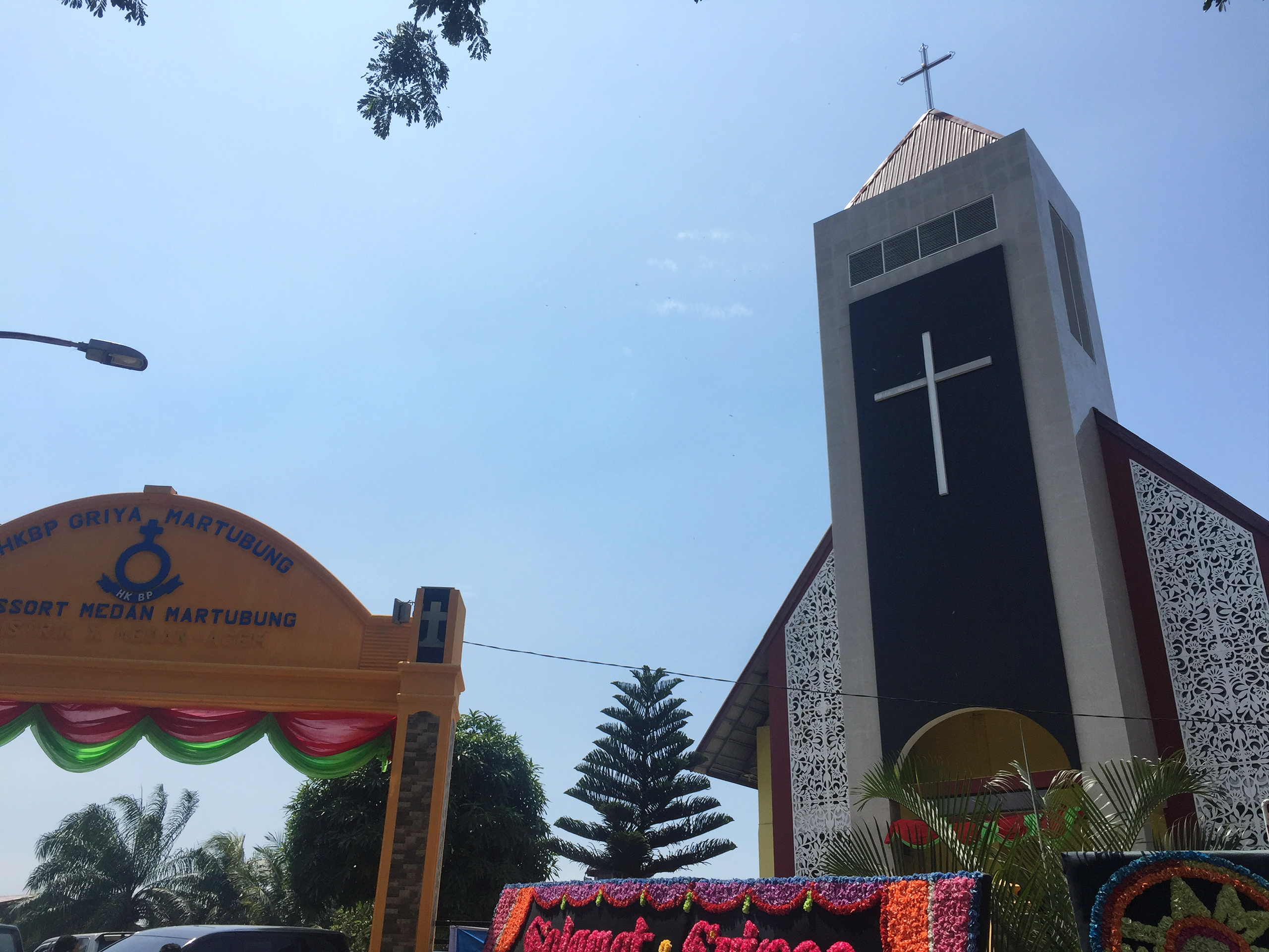 HKBP Griya Martubung, church in Martubung (Besar, Kec. Medan Labuhan, Medan)